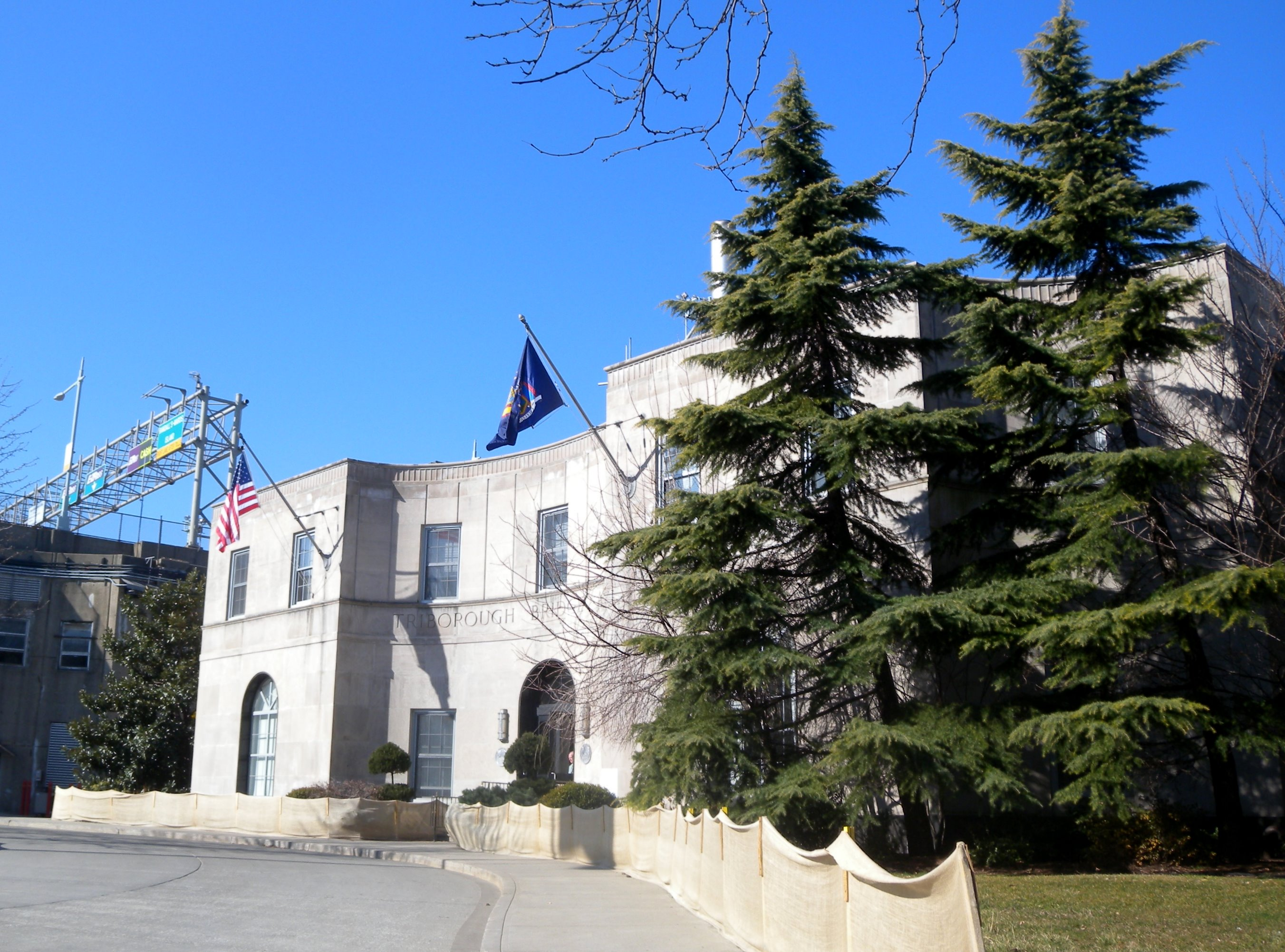 Looking west at headquarters from its driveway on a sunny morning.